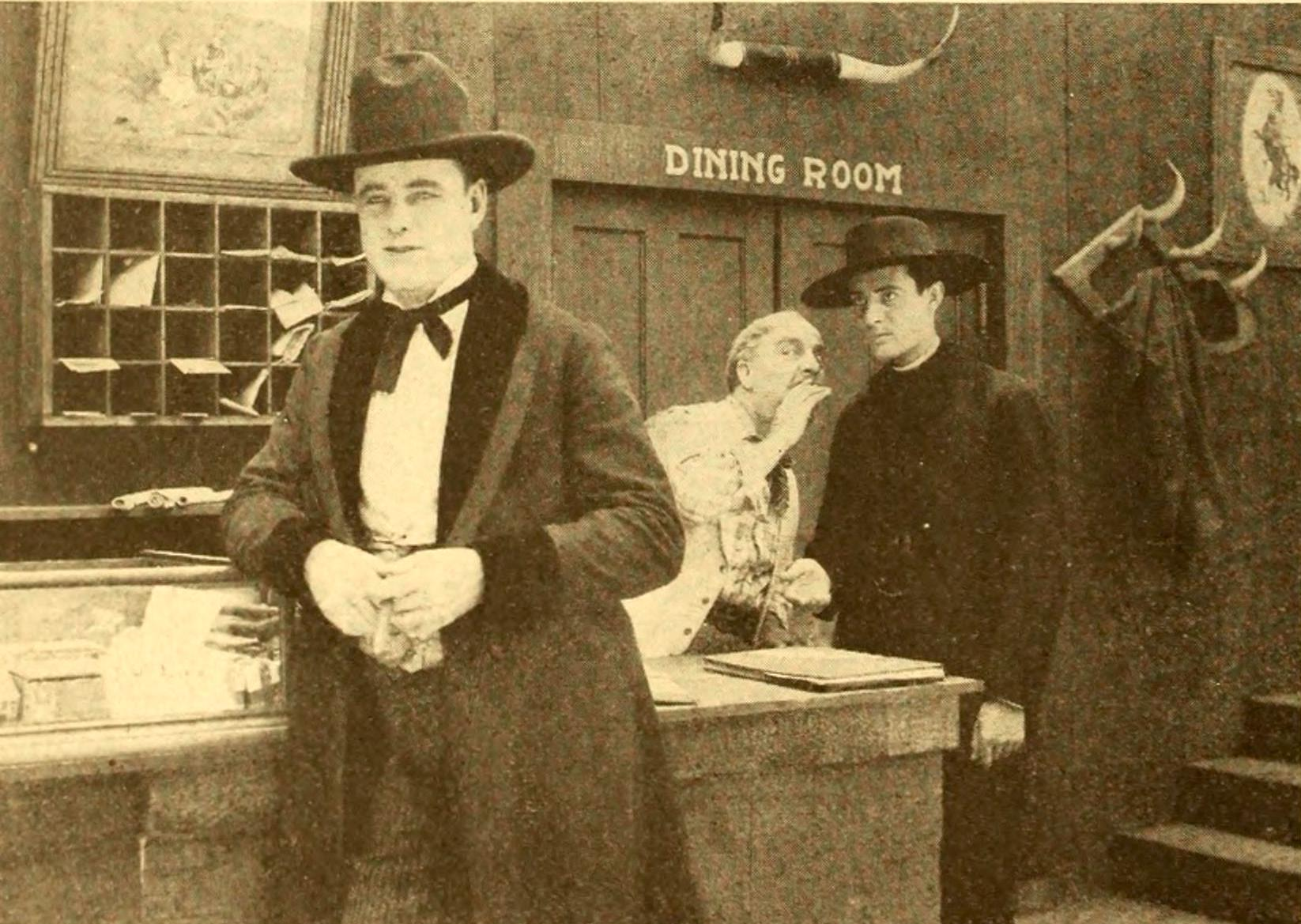 Still from the American western film The Devil Dodger (1917) with Roy Stewart and John Gilbert, on page 94 of the September 1918 Photoplay.